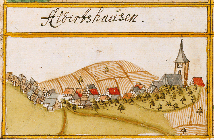 View of Albershausen from the forest register books created by Andreas Kieser